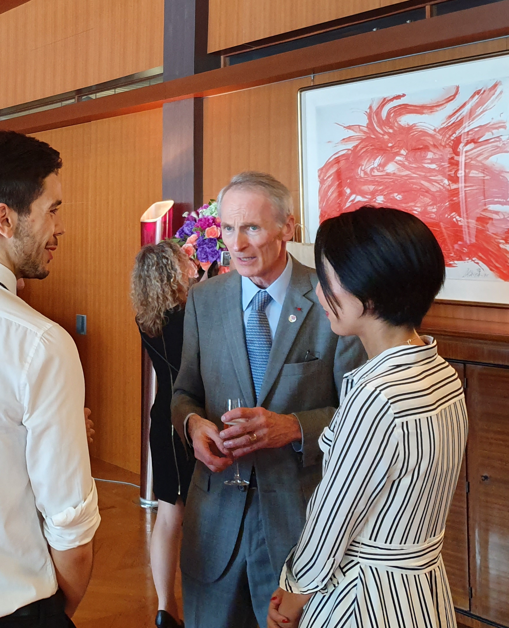 After Macron speech